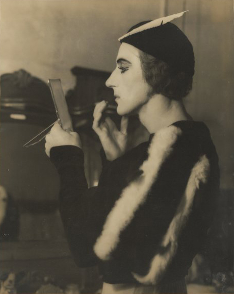 "Anton Dolin making up for his role as Prince Siegfried in Swan Lake Act II, Covent Garden Russian Ballet Australian tour, 1938 or 1939."